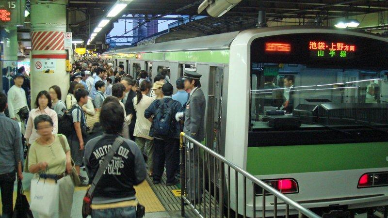 Platform of JR Yamanote line Shinjuku station at TOKYO on holiday